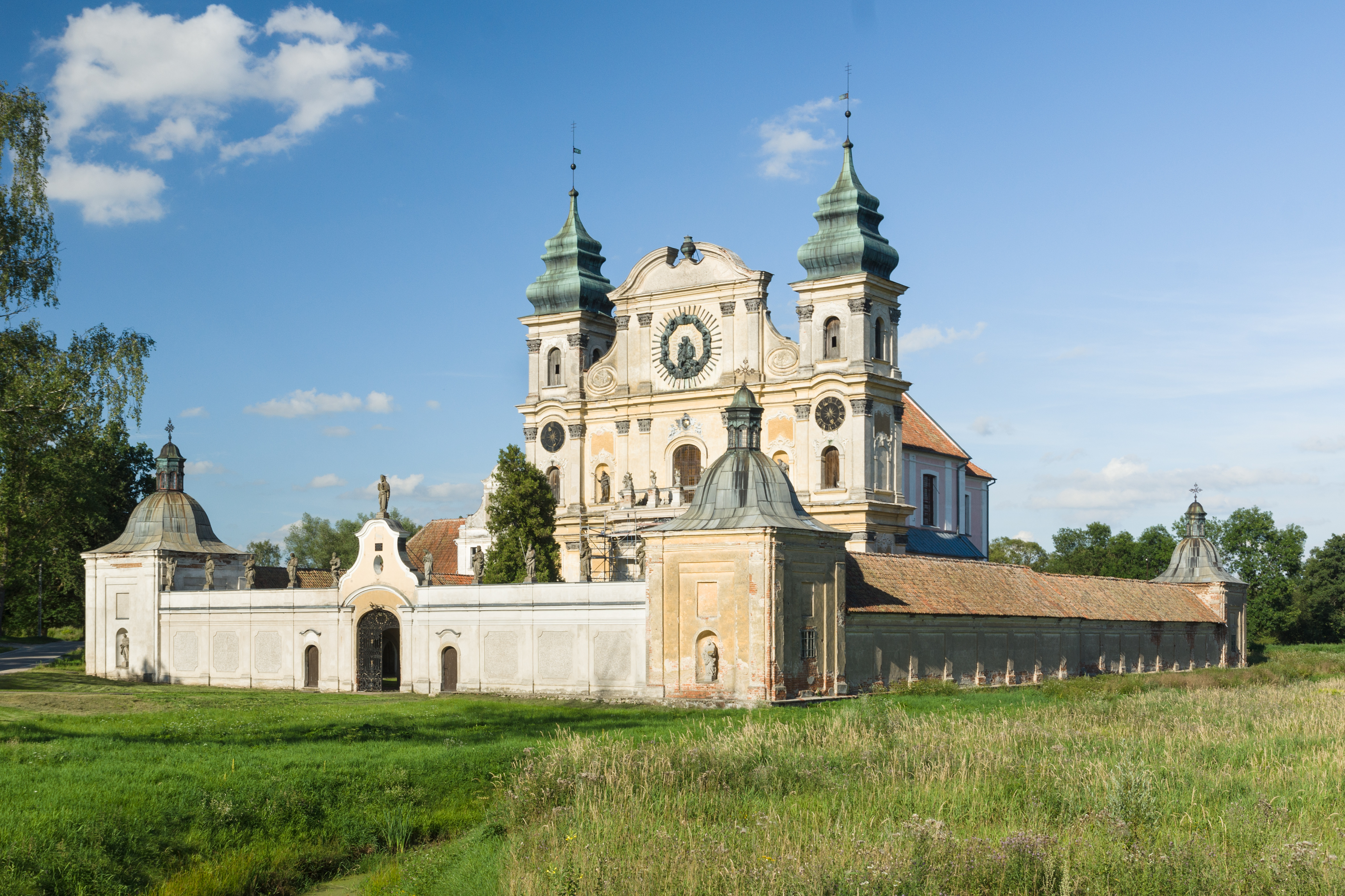 Church of the Visitation in Krosno, Lidzbark County.